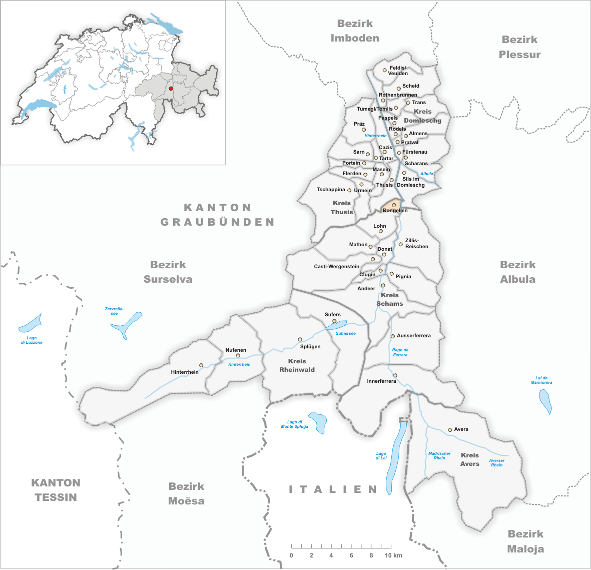 Municipality Rongellen